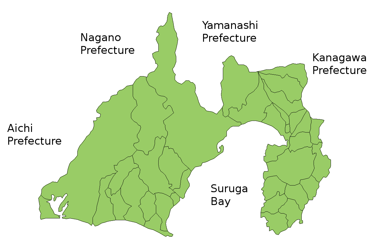 Map of Shizuoka Prefecture, Japan. Thanks to Aoki Shigenobu and [1]. Colors from Image:TokyoMapCurrent.png by User:Fg2.